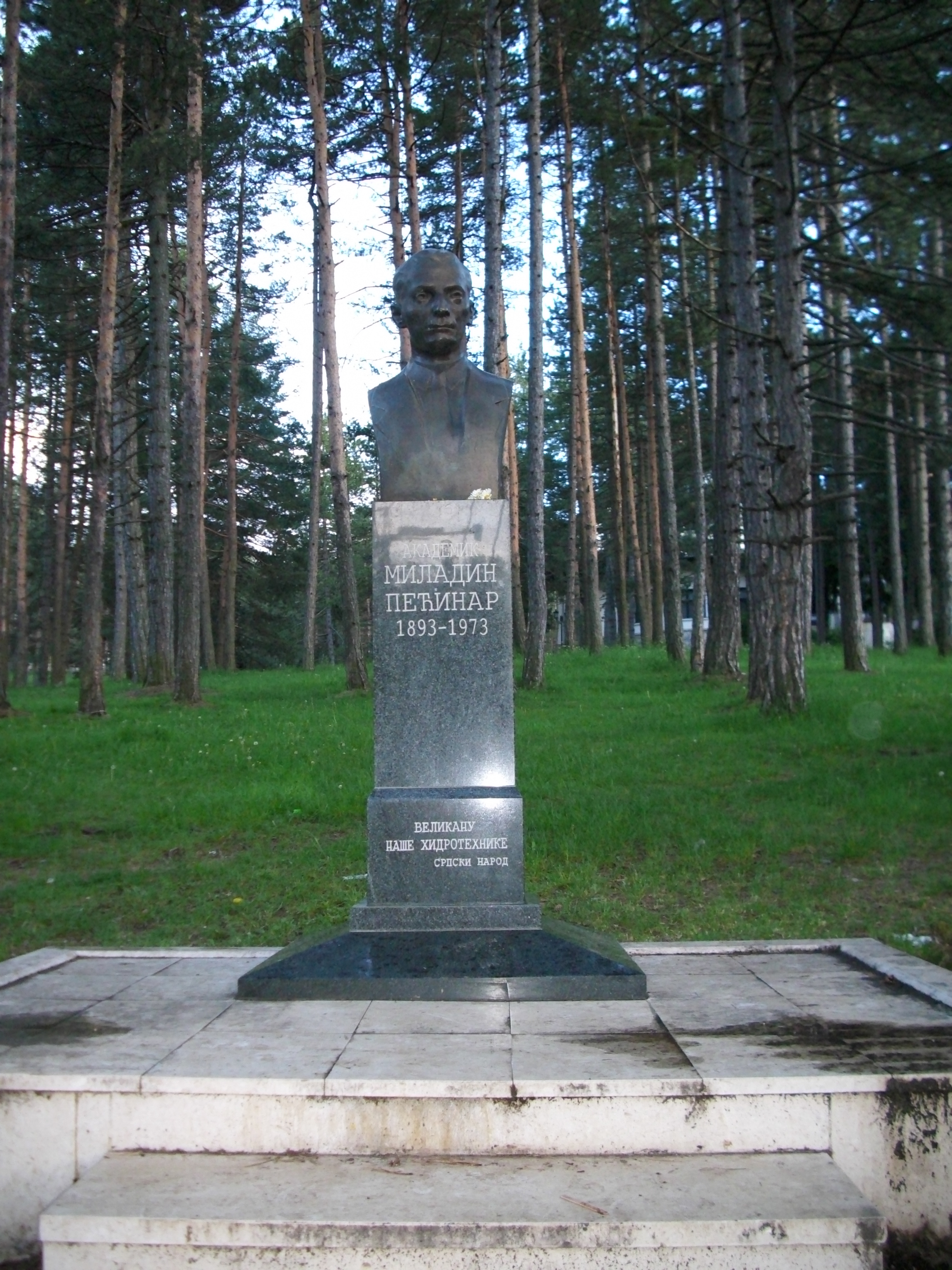 Serbian academic and engineer Српски (ћирилица): Српски инжињер и академик САНУ, споменик у Златибору